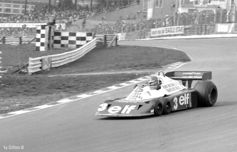 Ronnie Peterson Tyrrell P34 Paddock BH 77